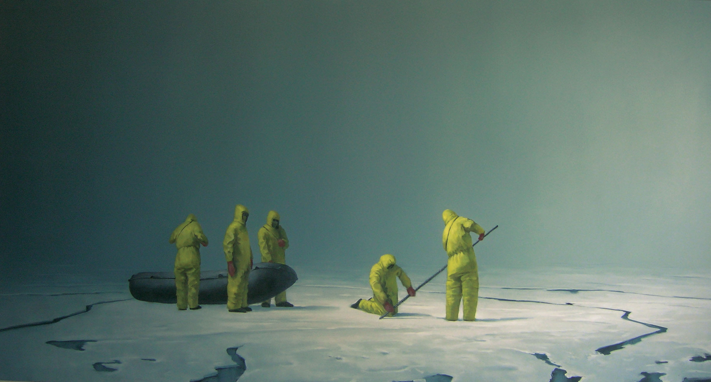 Arbeit auf Eis - artwork of an expedition painter. (Oil on canvas, 160 × 300 cm.)